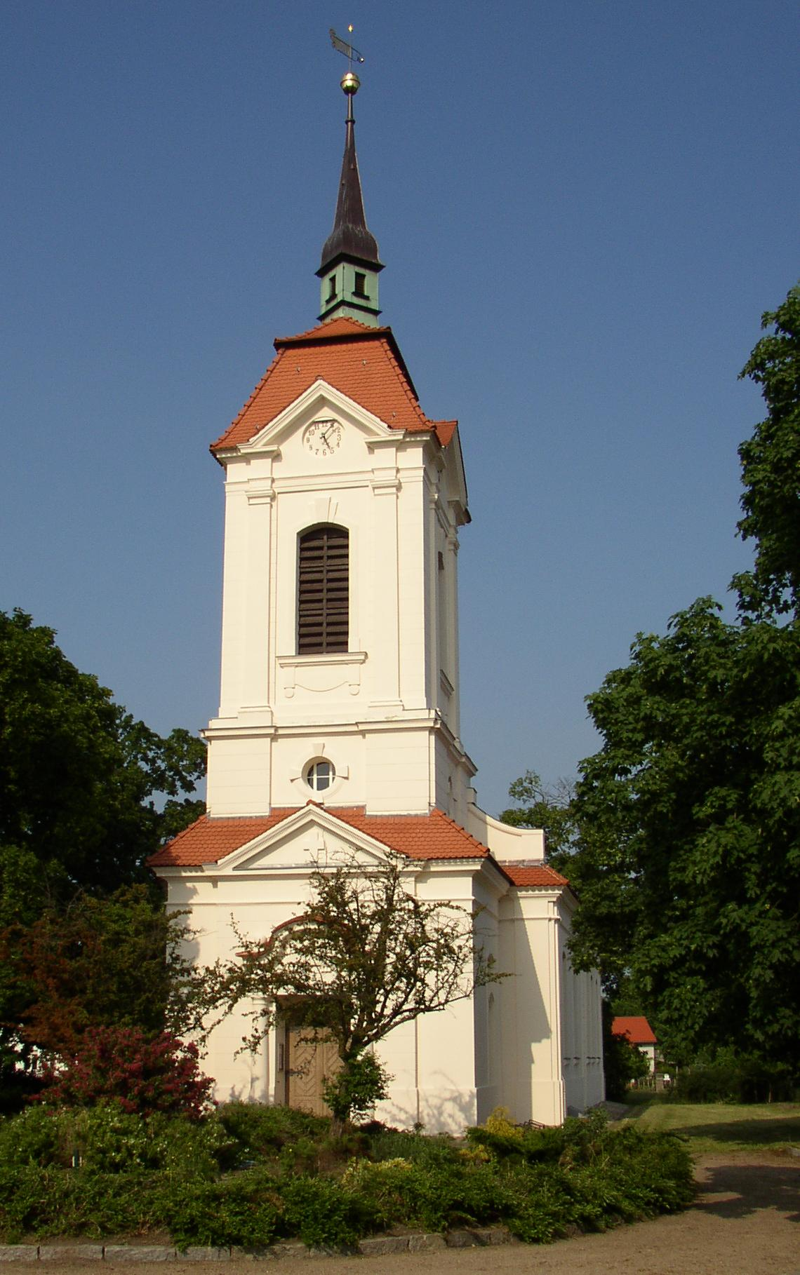 Church in Bad Freienwalde-Altranft in Brandenburg, Germany